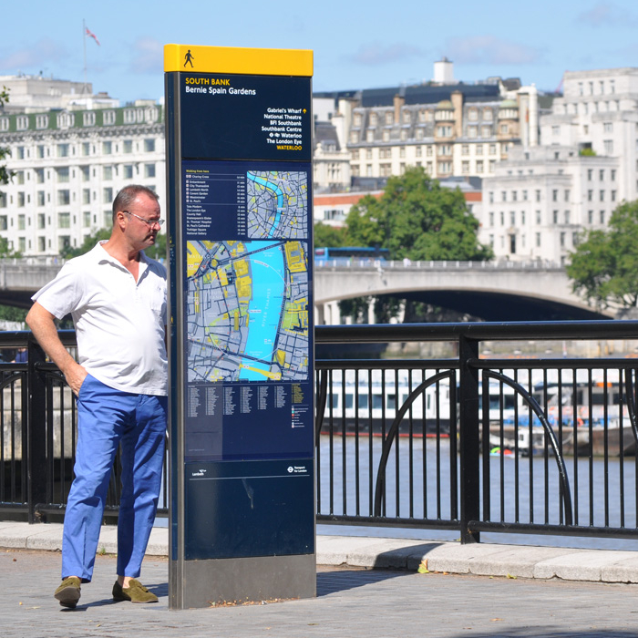 A man consults a Legible London wayfinding monolith.